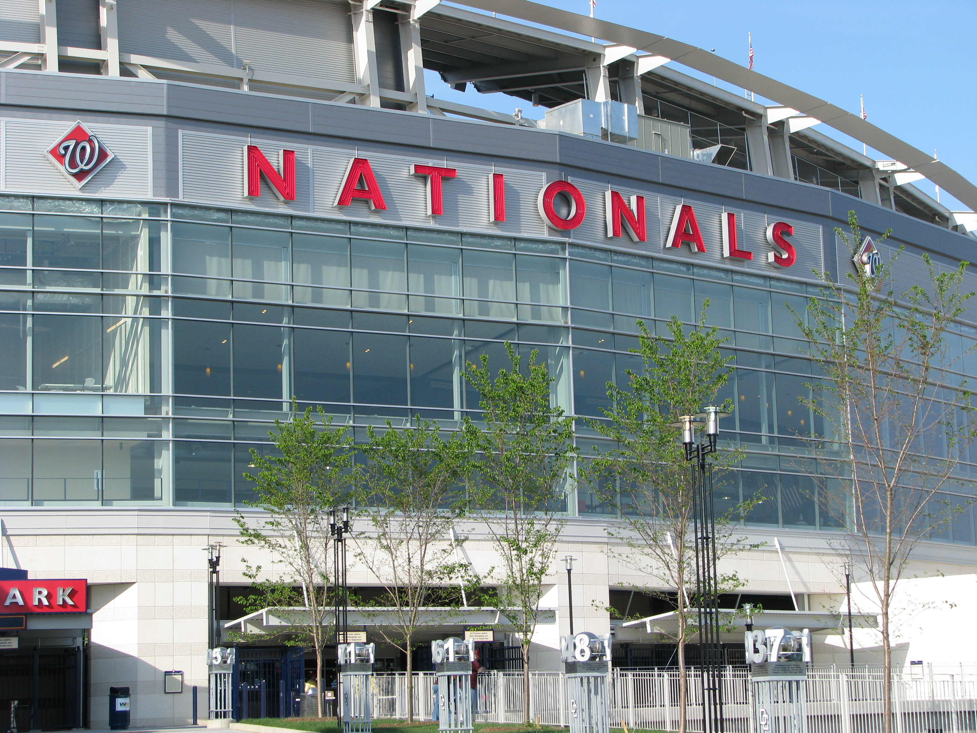 Taken by Dan M., 4/24/08. 15:43, 26 April 2008 . . Nymfan9 . . 3,264×2,448 (2.65 MB)